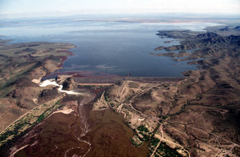 Painted Rock Dam in southwestern Arizona. Photo taken during a period of high runoff, with the resultant reservoir full in the background, and the swollen Gila River in the foreground. The Painted Rock Reservoir and Dendora Valley are on the southern border of the Gila Bend Mountains, on photo's left. (The Painted Rock Mountains are to the right.)